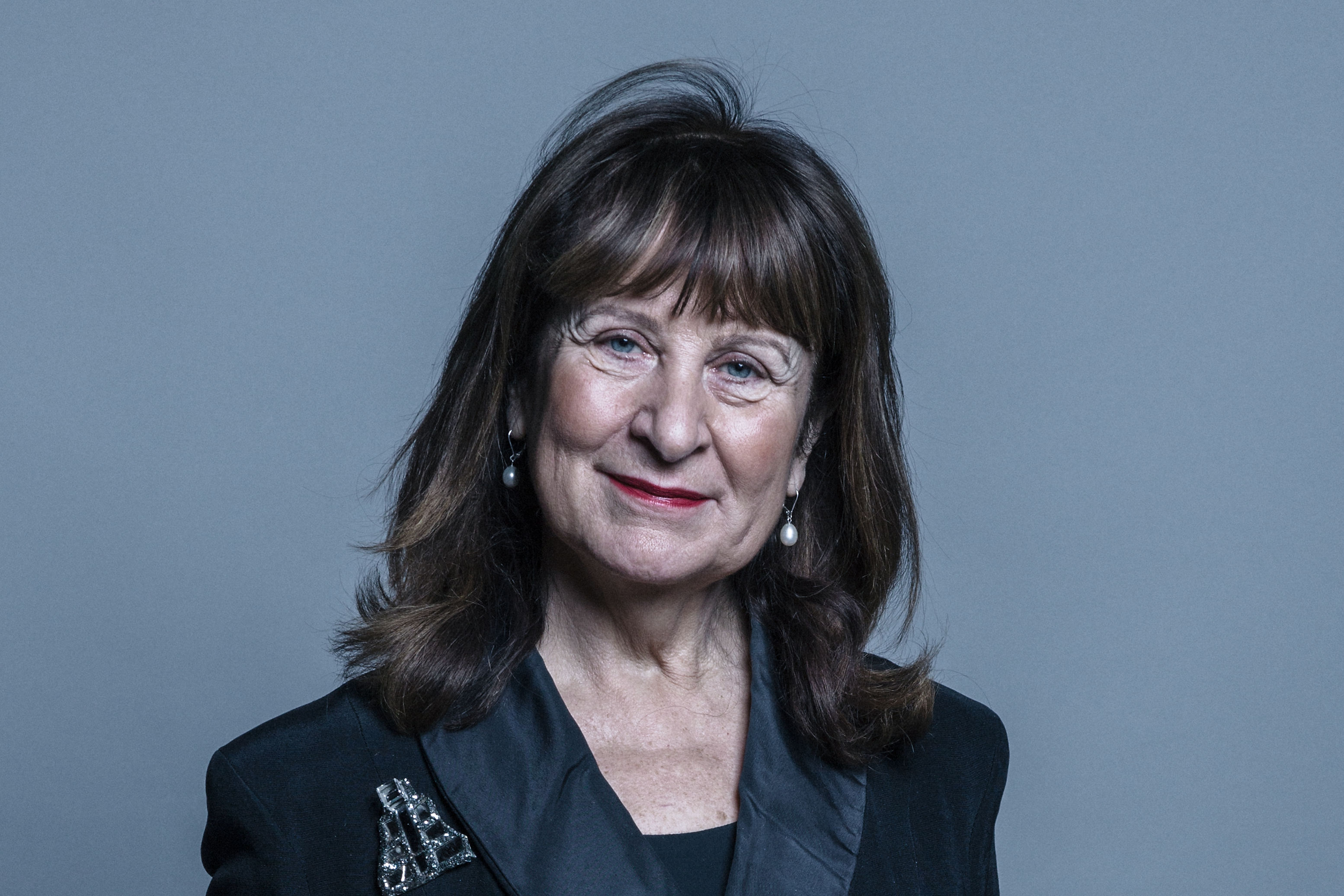 Official portrait of Baroness Kennedy of The Shaws